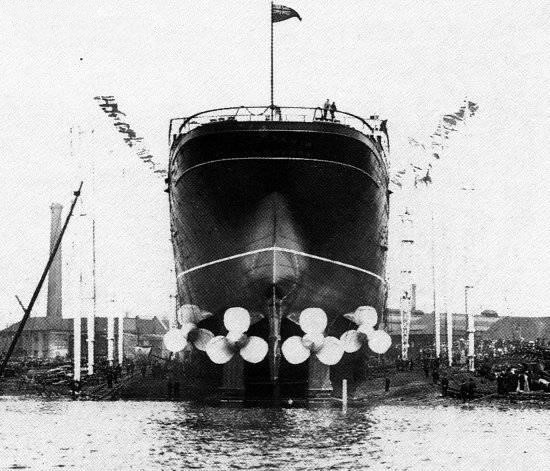 Stern view of RMS Lusitania before launch on 7 June 1906. This ship was the first quadruple screw liner.